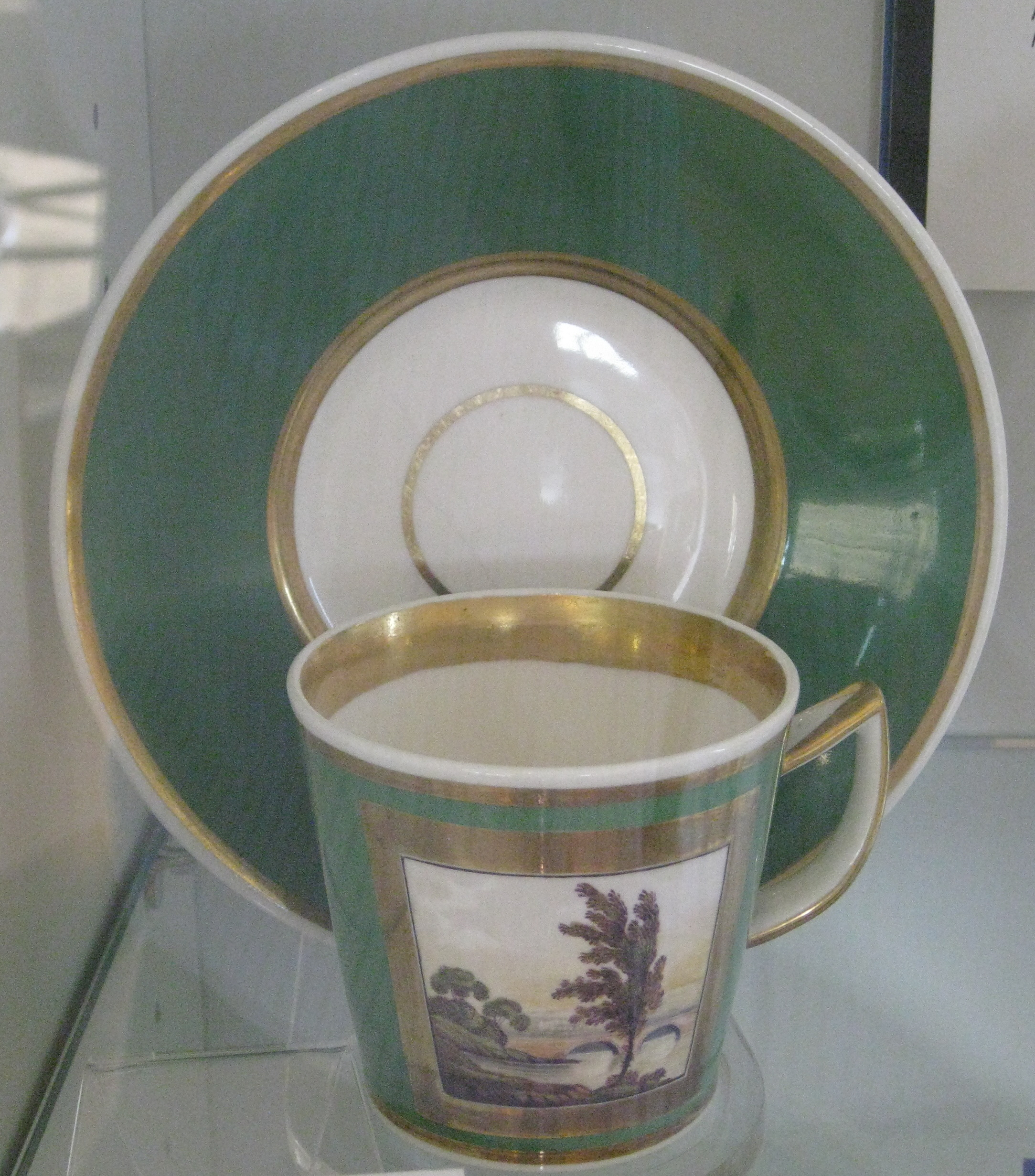 Tea cup and matching saucer from the Rockingham pottery, Swinton, Tea Ware pattern 714, 1826 to 1830. On display at Clifton Park Museum.